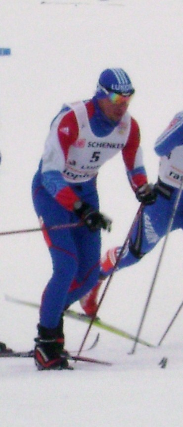 Russian cross country skier Artem Zhmurko at Lahti Ski Games 2010.